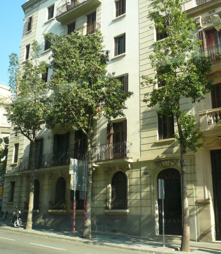 Brachychyton_populneum, carrer de Balmes, Barcelona